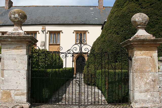 Fivehead: Swell Court Farm, Swell